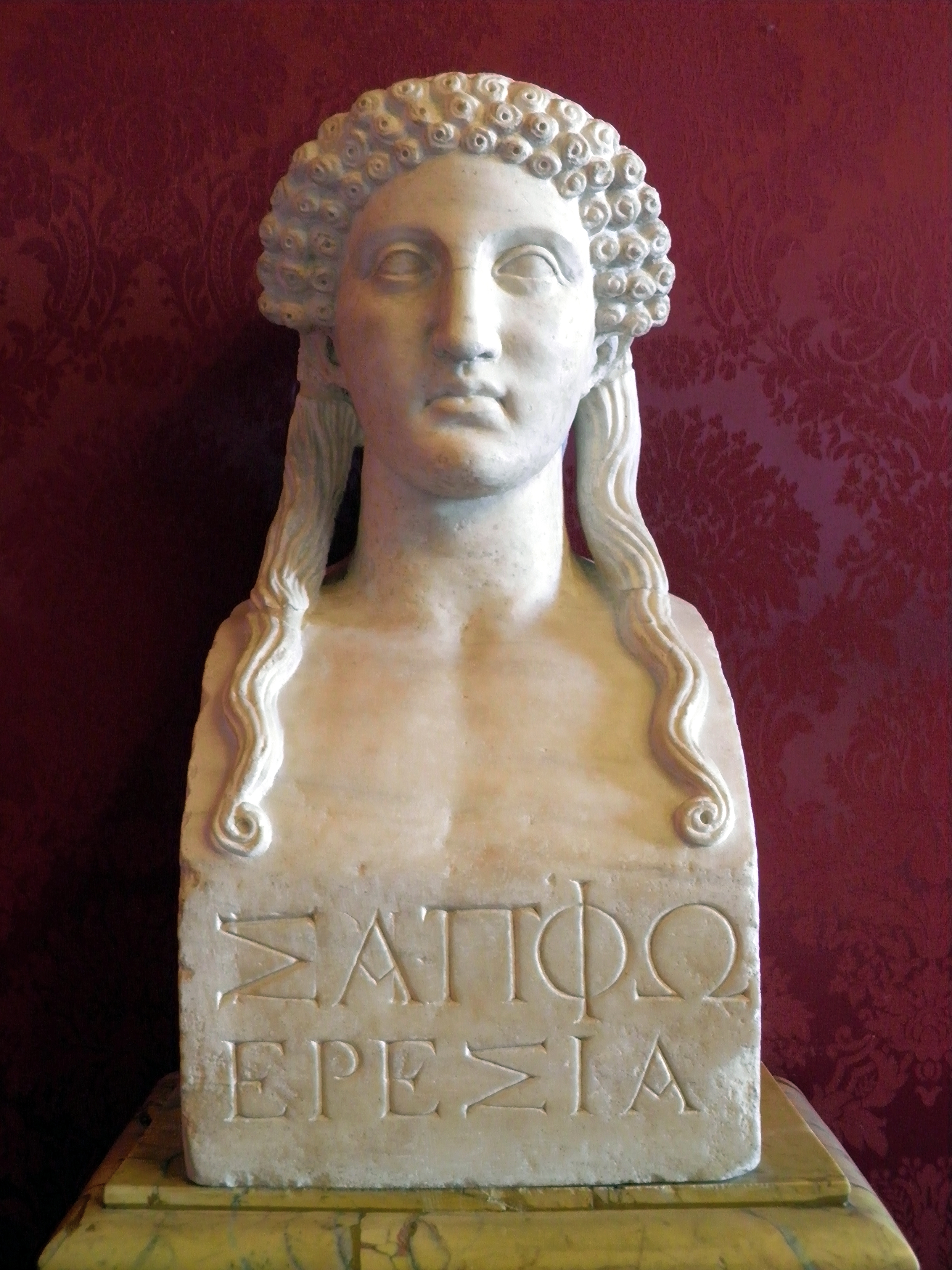 Hermaic pillar with a female portrait, so-called “Sappho”; inscription "Sappho Eresia" ie. Sappho from Eresos. Roman copy of a Greek Classical original, Capitoline Museum